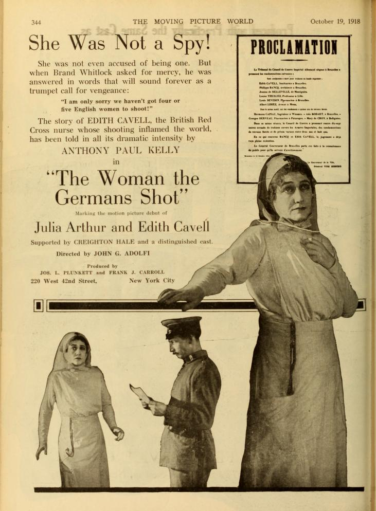 Advertisement in Moving Picture World, Sept 1918 for The Woman the Germans Shot (1918).